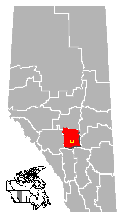 Location of Red_Deer, Census Division No. 8, Alberta